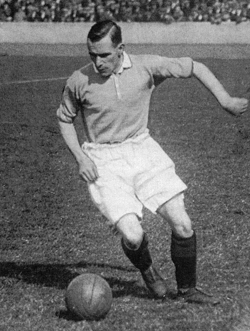 Alan Lauder Morton (24 April 1893 – 12 December 1971) was a Scottish international footballer and "Wembley Wizard". He was known for his stirring wing play as an outside-left and commitment to Rangers. He retired from active play in 1933.